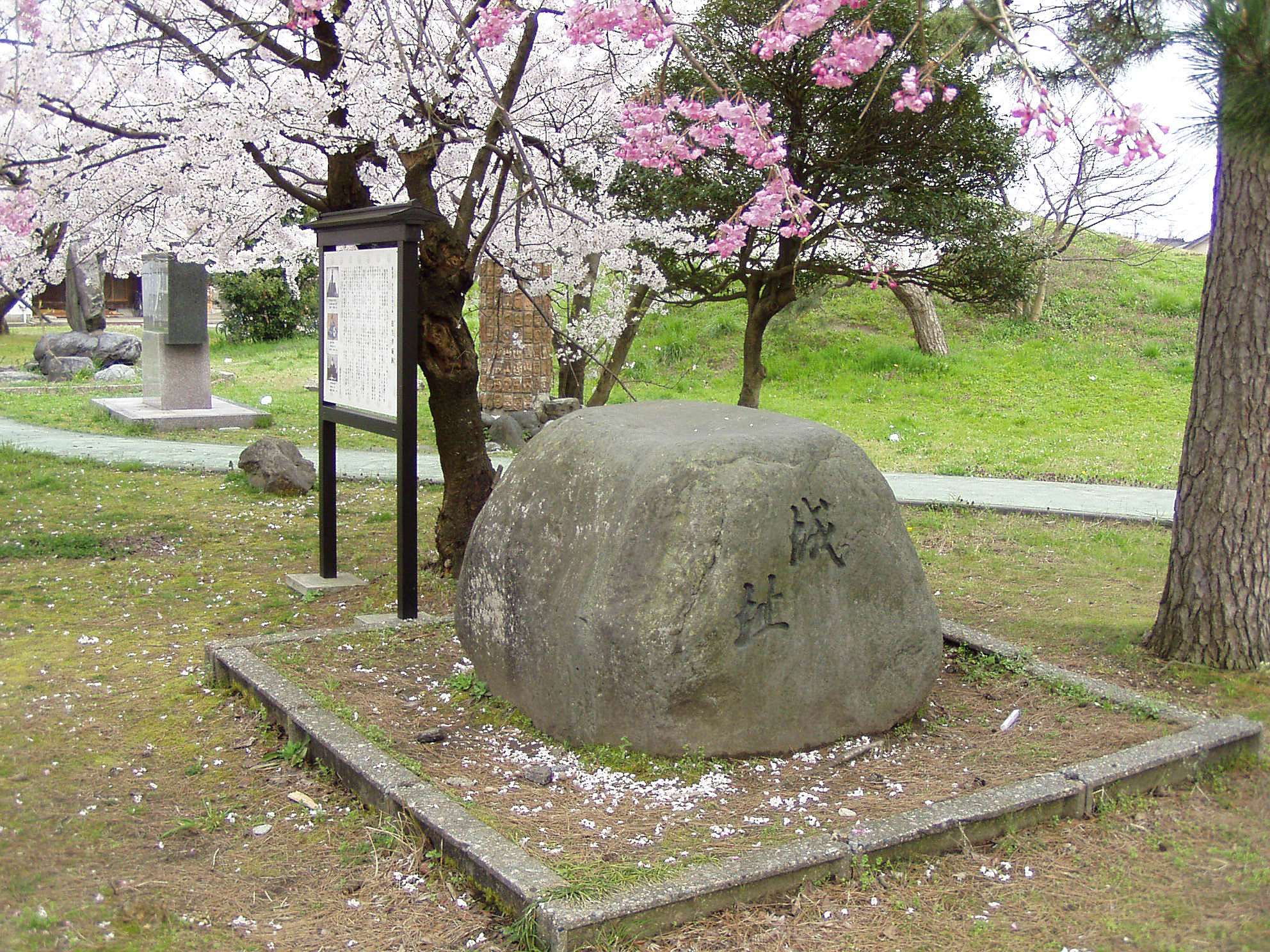 Houjyouzu castle(Toyama-Japan)